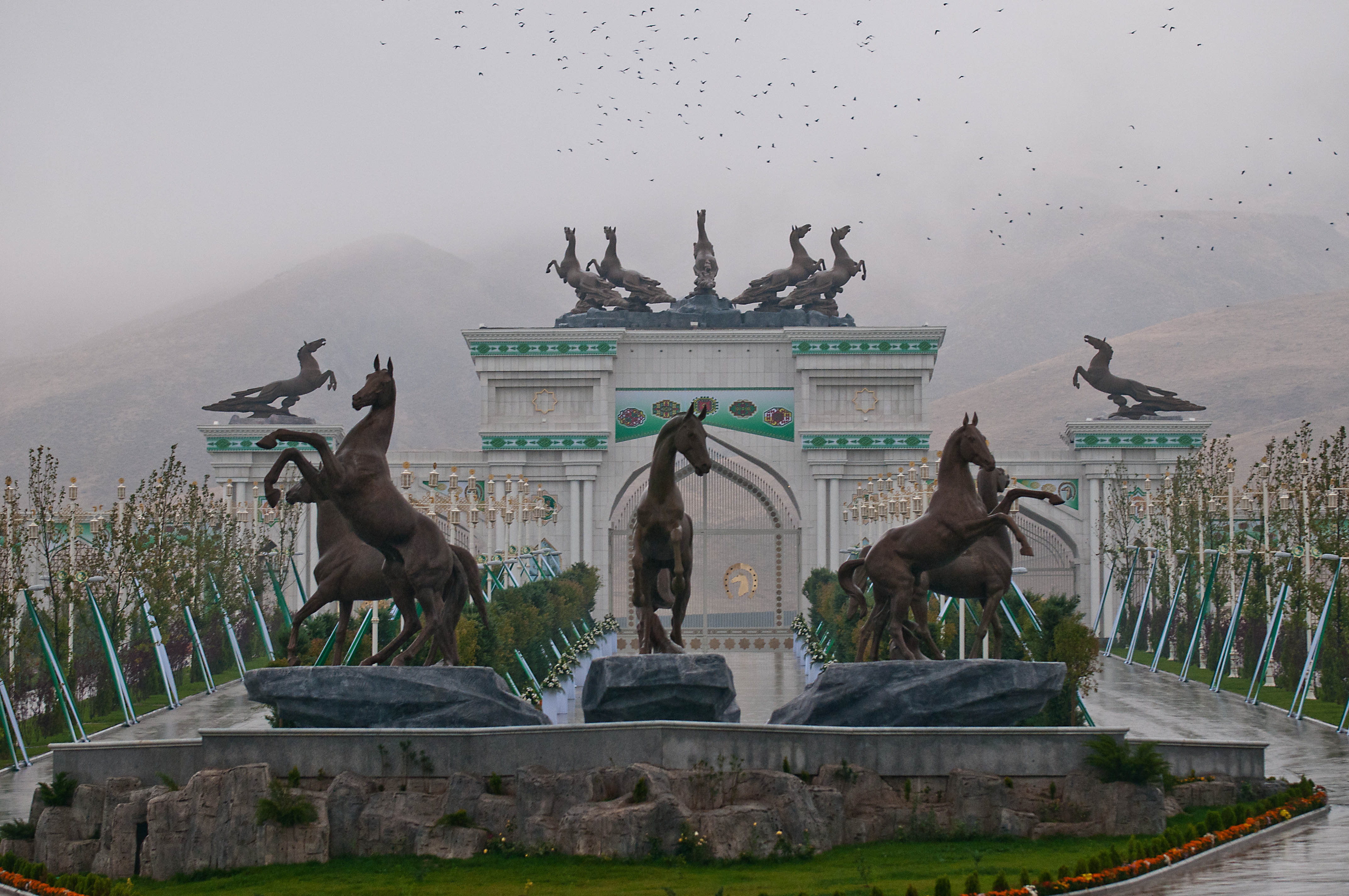 Opening of the Ahal Velayat Equestrian Complex